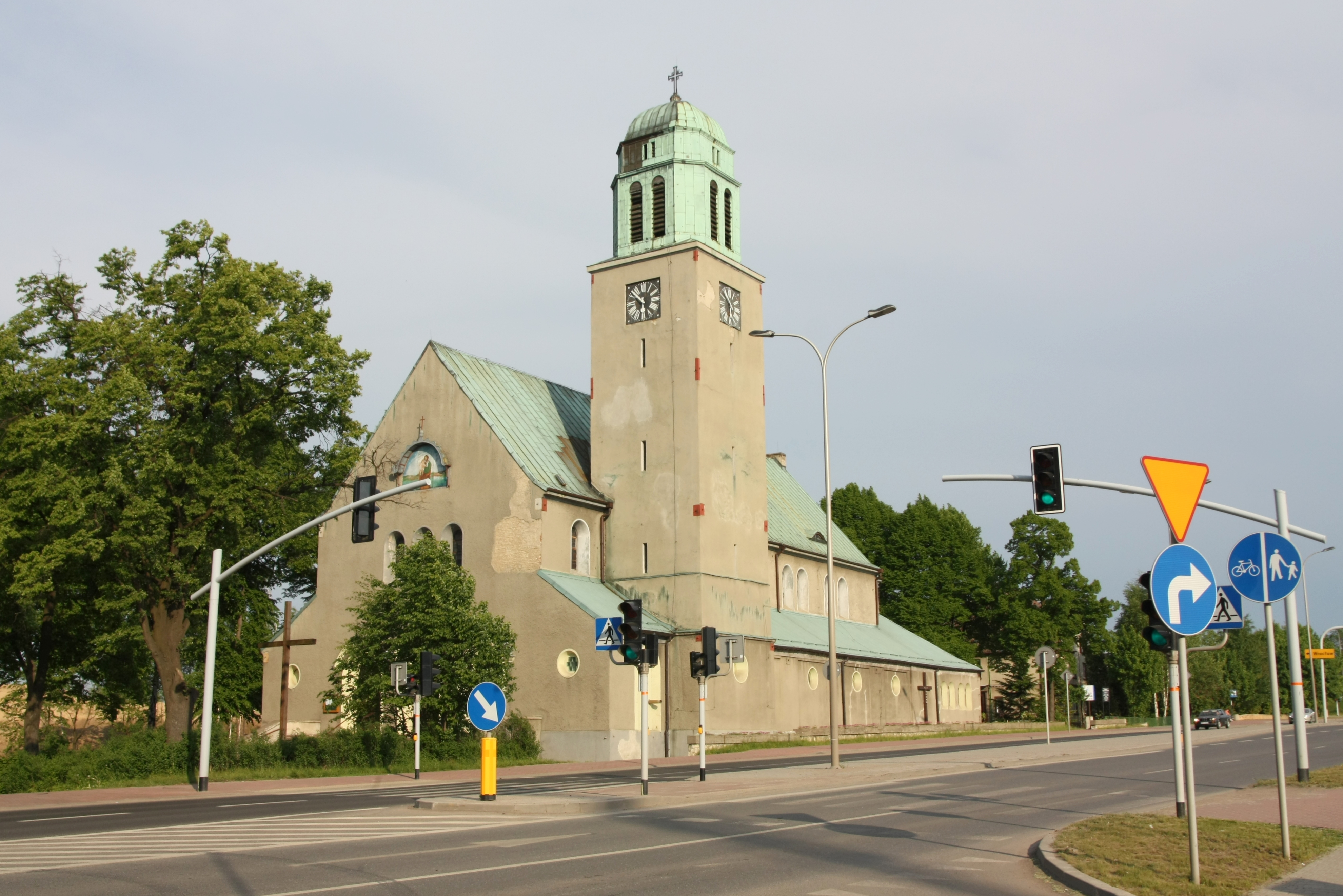 Saint Joseph church in Bytom.